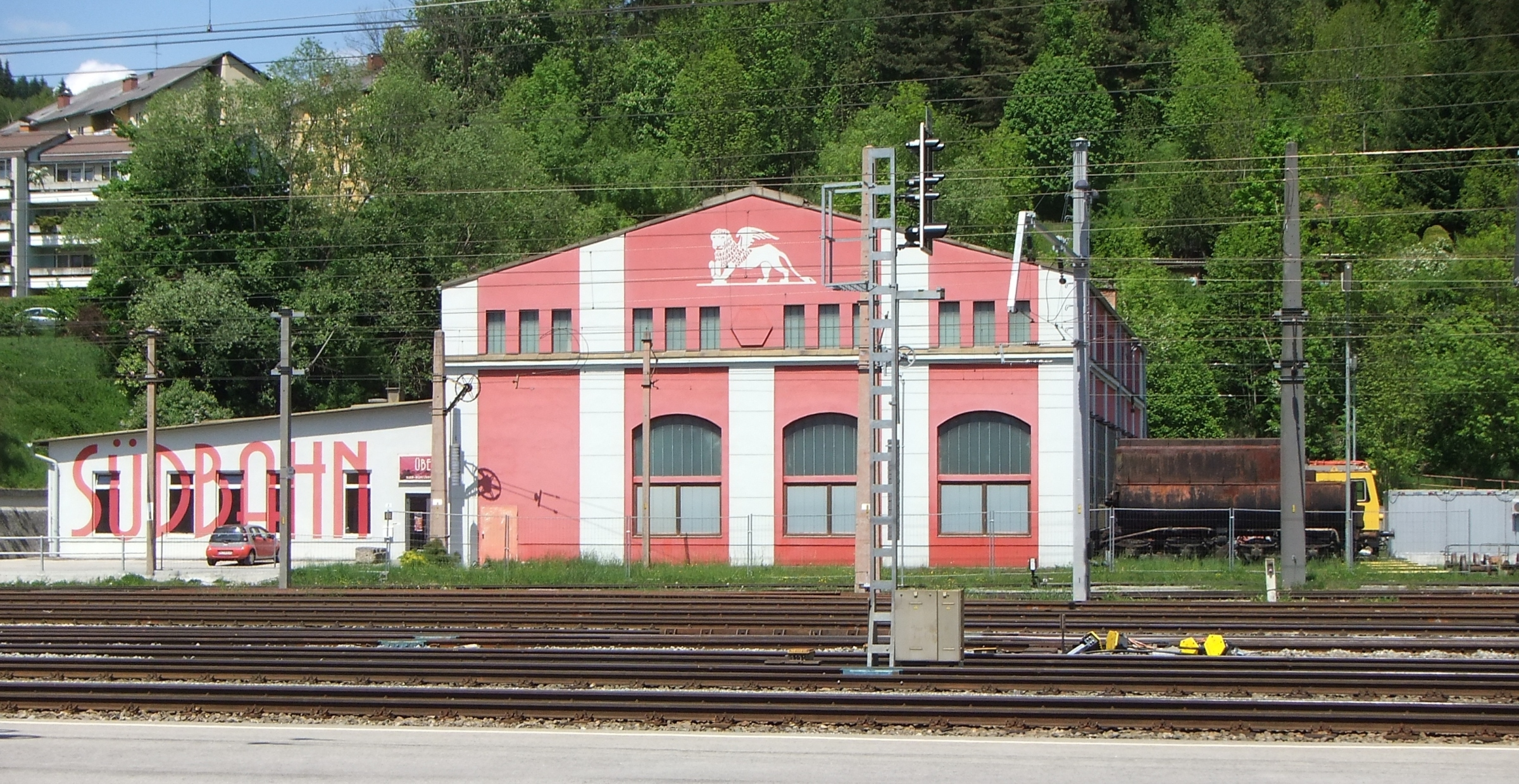 Train station Mürzzuschlag in Styria